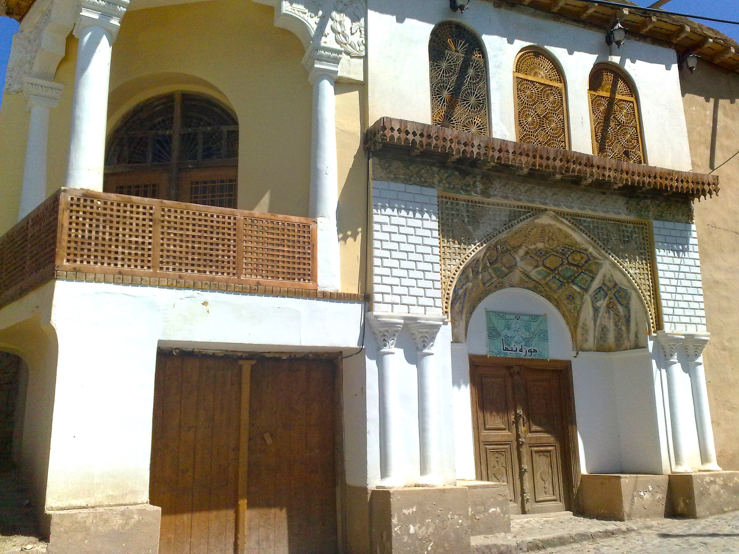 House_of_Nima, a visitor attraction in Yush village, Nur county. Mazandaran provice, Iran